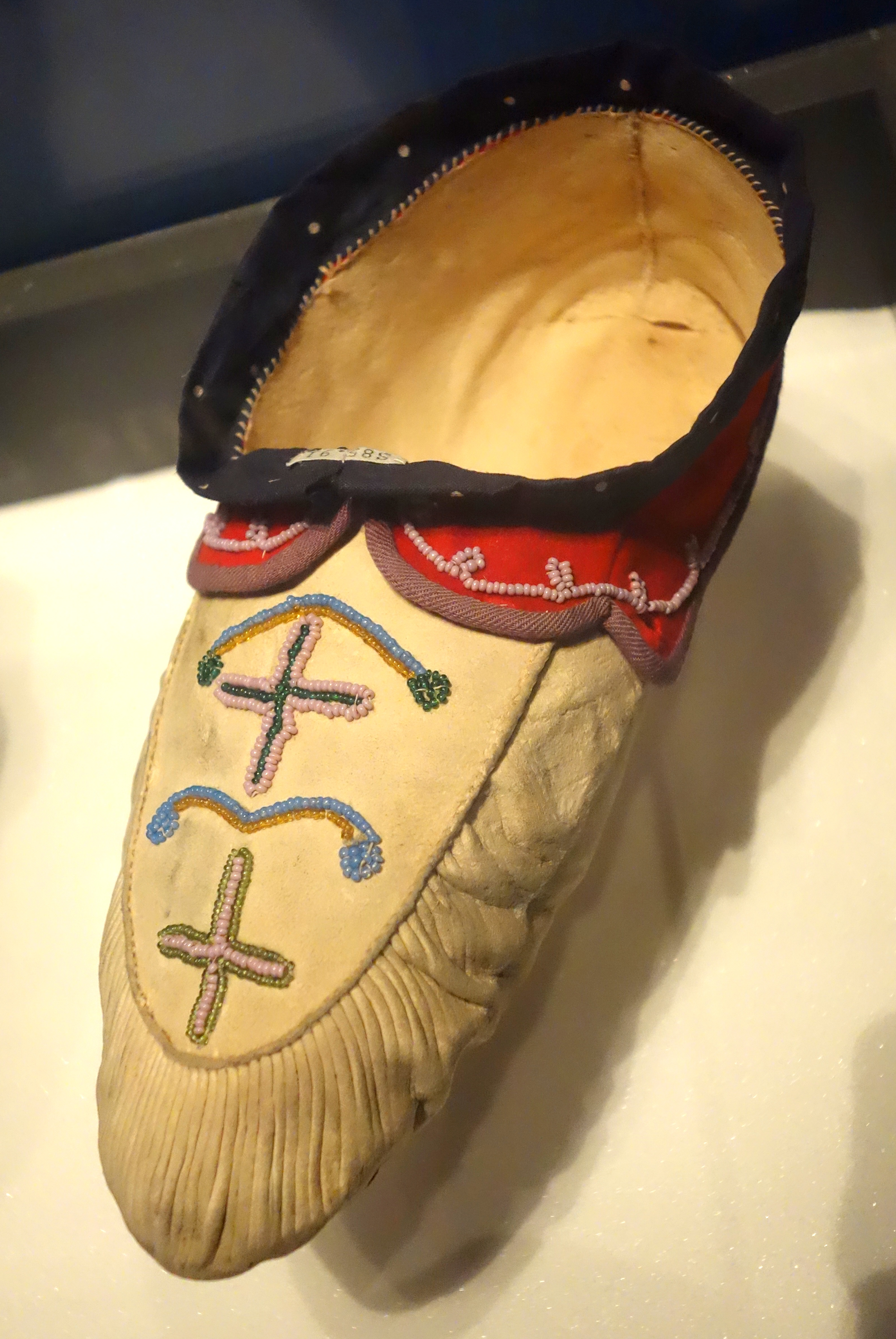 Exhibit in the Bata Shoe Museum, Toronto, Ontario, Canada. This item is old enough so that its design is in the public domain. The museum permitted photography without restriction.